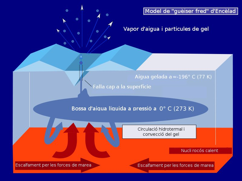 Source: NASA Planetary Photojournal PIA07799 * Original Caption Released with Image: As Saturn's active moon Enceladus continues to spew icy particles into space, scientists struggle to understand the mechanics of what is going on beneath the fractured south polar terrain. This graphic illustrates key aspects of the model proposed by the Cassini imaging science team in a paper published in the journal Science on March 10, 2006. The model shows how proposed underground reservoirs of pressurized liquid water above 273 degrees Kelvin (0 degrees Celsius) could fuel geysers that send jets of icy material into the skies above the moon's south pole. In the graphic, the vent to the surface pierces one of the "tiger stripe" fractures seen in Cassini views of the southern polar terrain (see PIA06247 for a look at the tiger stripes). Temperatures increase with depth. Some combination of internal radioactive decay and flexing -- perhaps concentrated within the tiger stripe fractures and brought about by the particular characteristics of Enceladus' orbit--is implicated as the source of the heat creating the liquid reservoirs. However, it is not yet clear how the deep interior of Enceladus functions, nor whether the moon is fully differentiated (separated into layers, with rock at the center and ice outside).